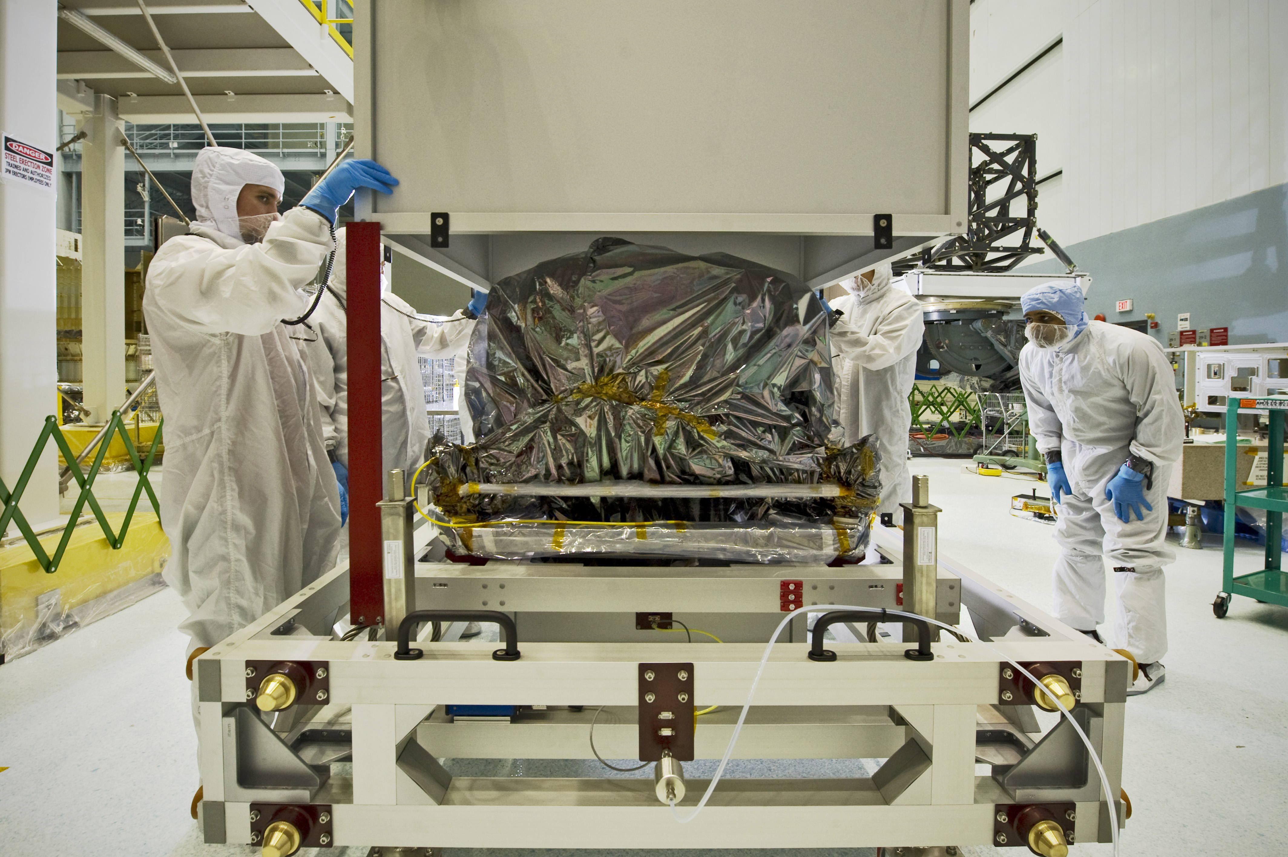 Engineers and scientists in the clean room at NASA's Goddard Space Flight Center in Greenbelt, Md. uncrate the James Webb Space Telescope's Mid-Infrared Instrument (or MIRI) from its Envirotainer (shipping container) on May 30, 2012. The MIRI was shipped from the Science and Technology Facilities Council's (STFC) Rutherford Appleton Laboratory (RAL) in the U.K. Image Credit: NASA, Chris Gunn; Text Credit: NASA, Rob Gutro NASA image use policy. NASA Goddard Space Flight Center enables NASA’s mission through four scientific endeavors: Earth Science, Heliophysics, Solar System Exploration, and Astrophysics. Goddard plays a leading role in NASA’s accomplishments by contributing compelling scientific knowledge to advance the Agency’s mission. Follow us on Twitter Like us on Facebook Find us on Instagram